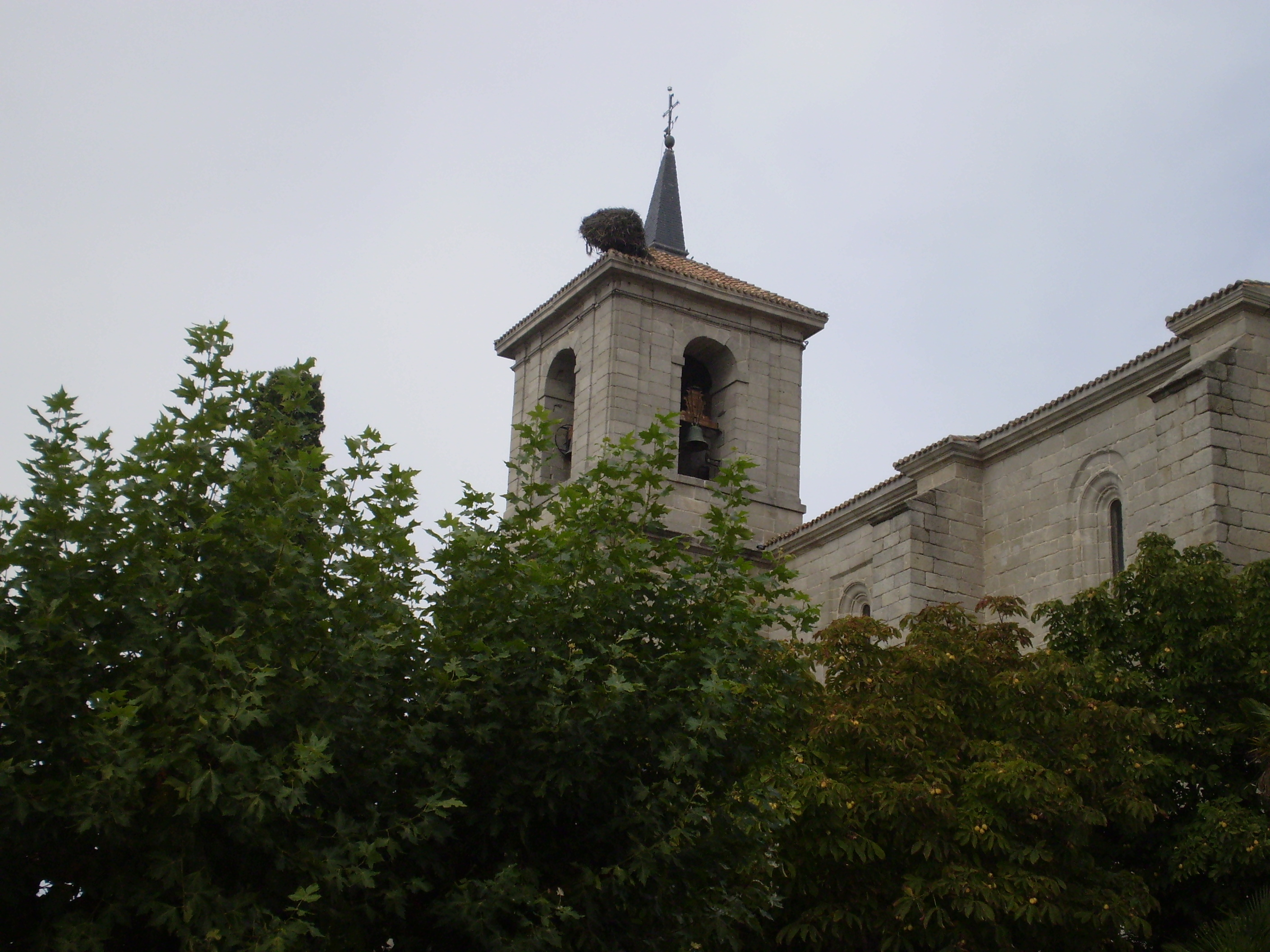 Churh. Valdemorillo, Community of Madrid, Spain